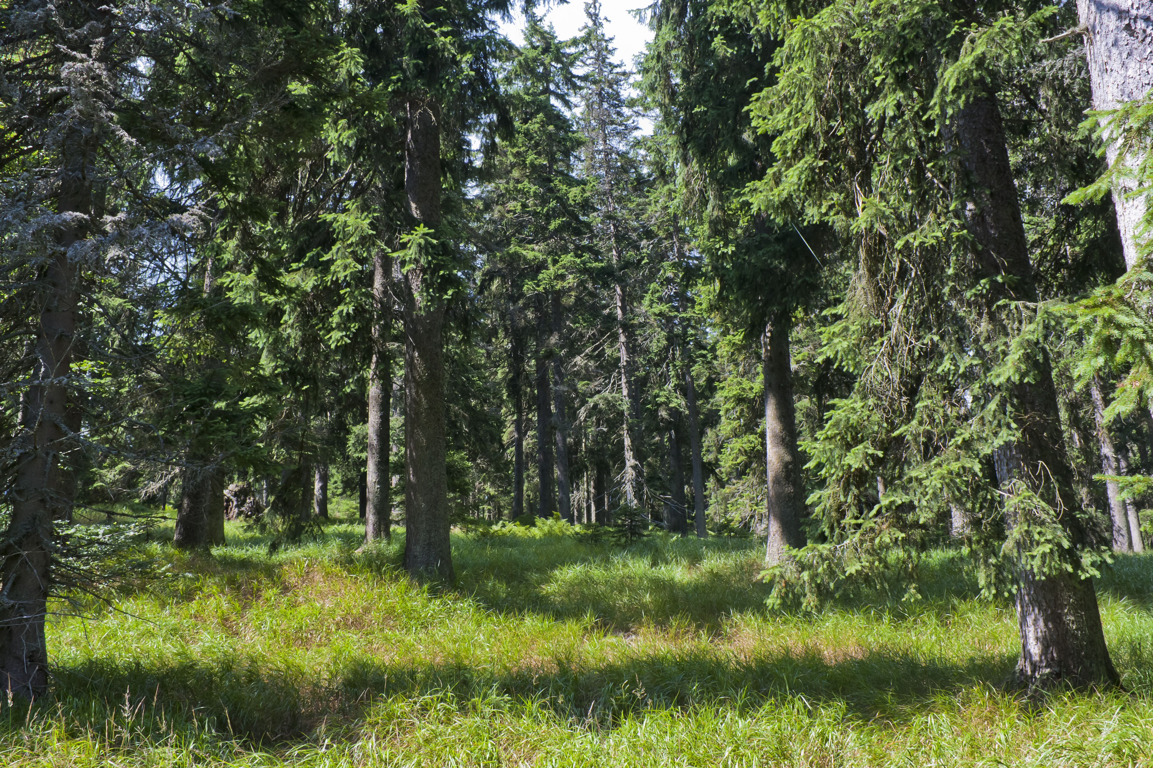 Mountain Spruce Forest (Calamagrosti villosae-Picetum barbilophozitosum) in the Falkenstein Region, Nationalpark Bavarian Forest